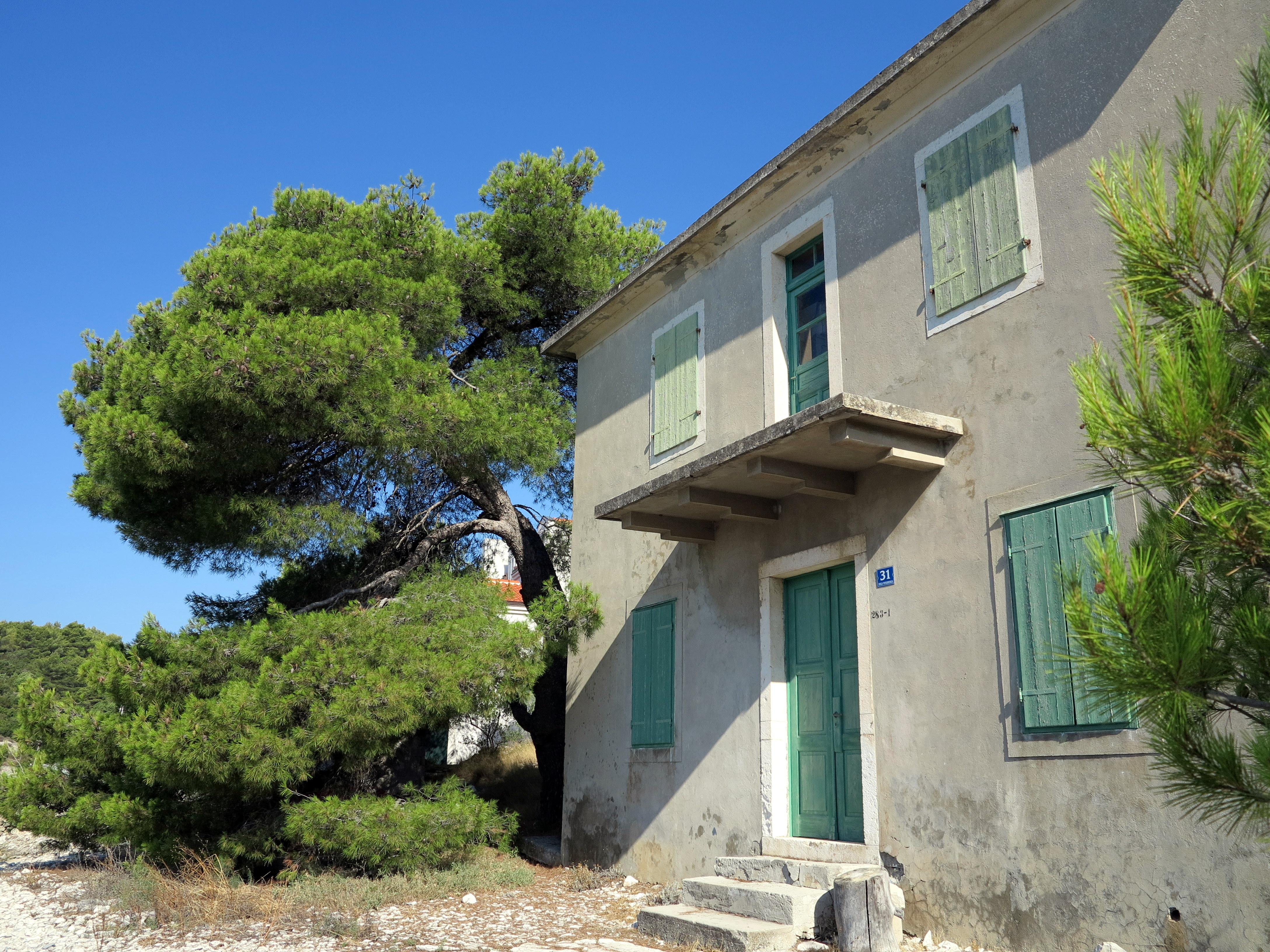 Podkamenica or Pod Kamenica in the bay of Nečujam Šolta / Croatia / Adriatic Sea.